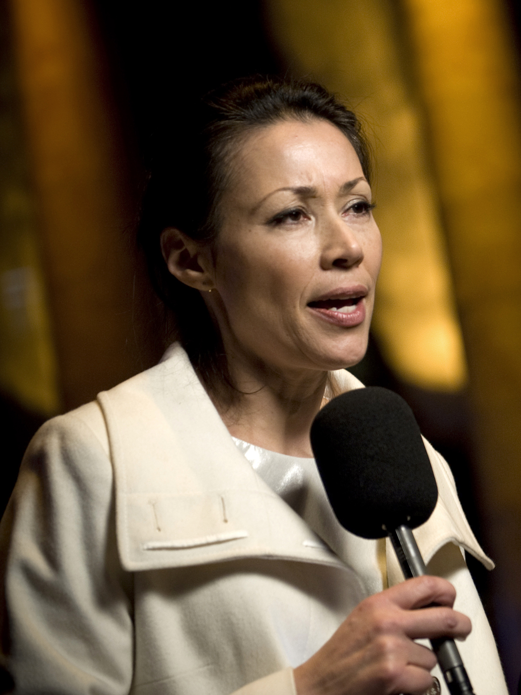 U.S. Navy Adm. Mike Mullen, chairman of the Joint Chiefs of Staff, is interviewed by NBC's Ann Curry at the Commander in Chief's Ball at the National Building Museum, Washington, D.C., Jan. 20, 2009.